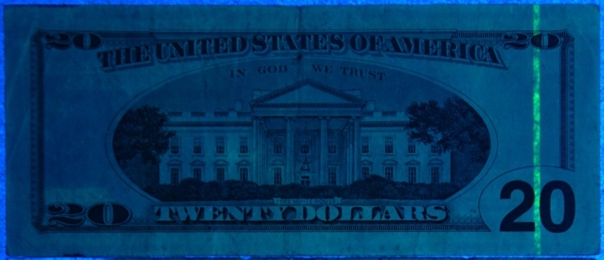 UV taken with a visible light camera, IR taken with incandescent light and a Wratten 87 filter on a modified camera.